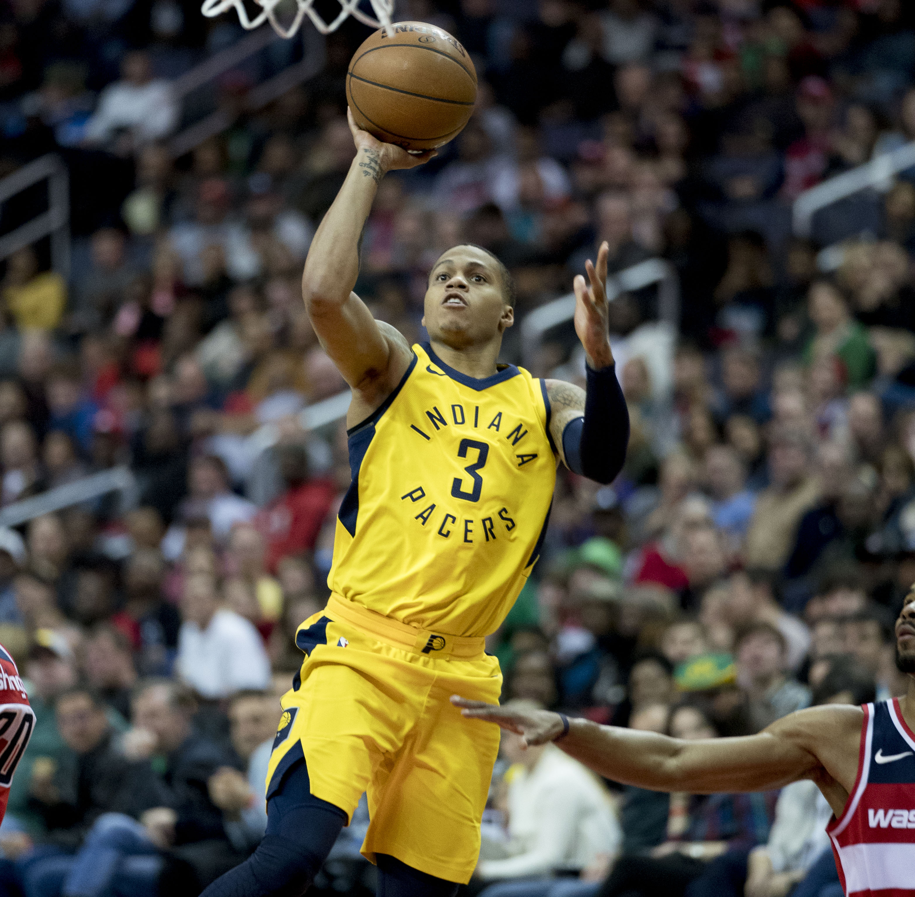 Pacers at Wizards 3/17/18